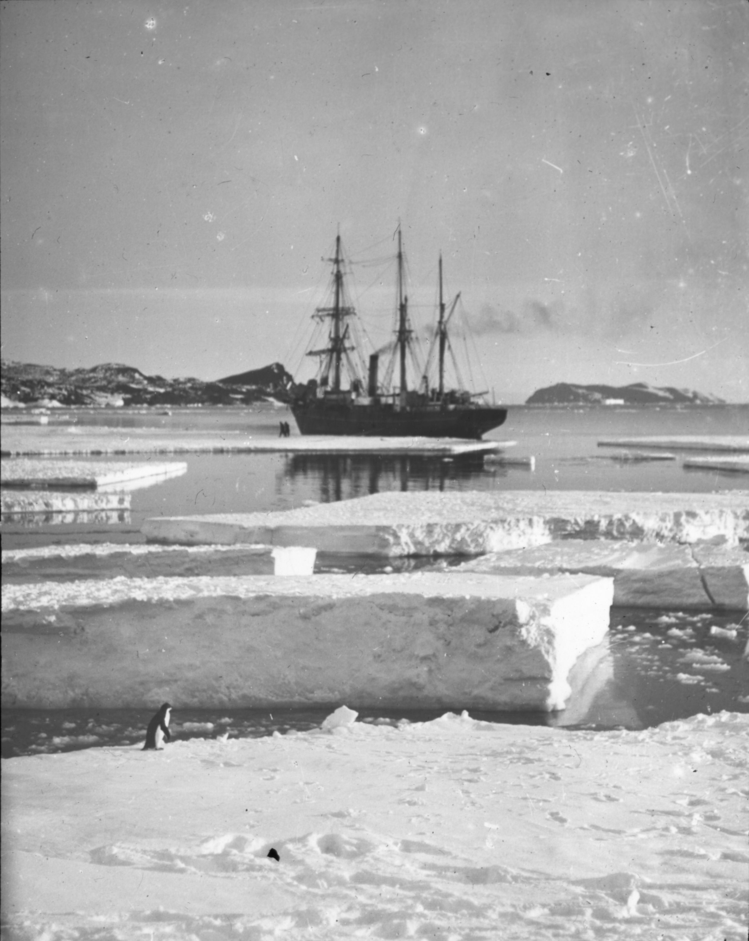 The Nimrod anchoring at Cape Royds. Photographs of the Nimrod Expedition (1907-09) to the Antarctic, led by Ernest Shackleton.